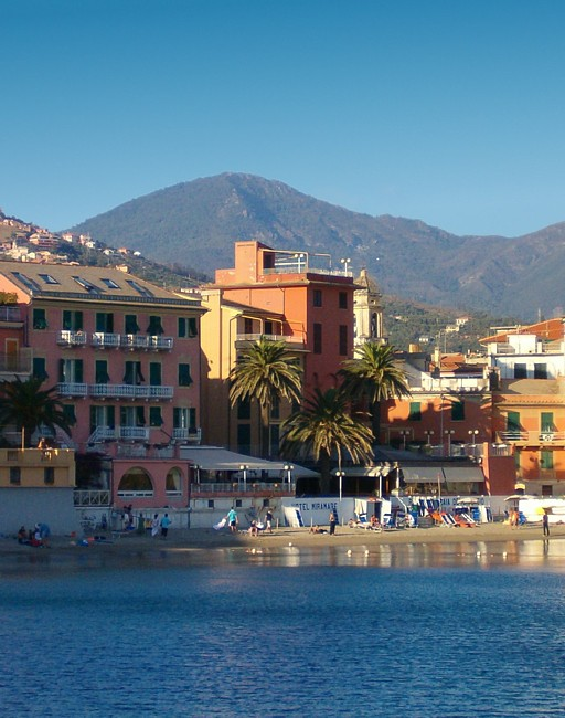 Sestri Levante Picture taken by user:Idéfix september 2004